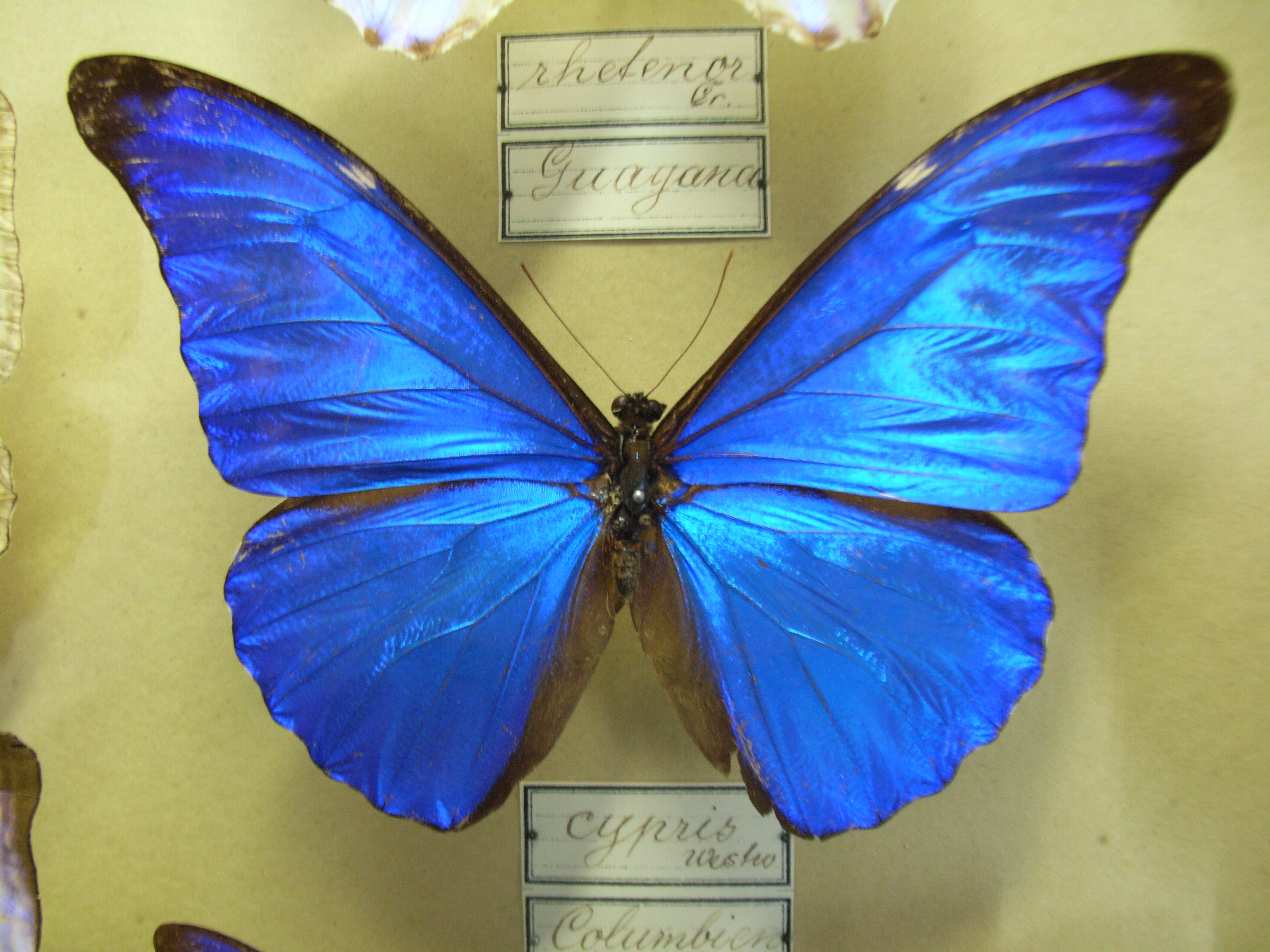 Morpho rhetenor Ex Museum Wiesbaden